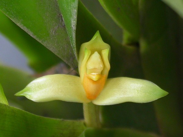 Heterotaxis crassifolia